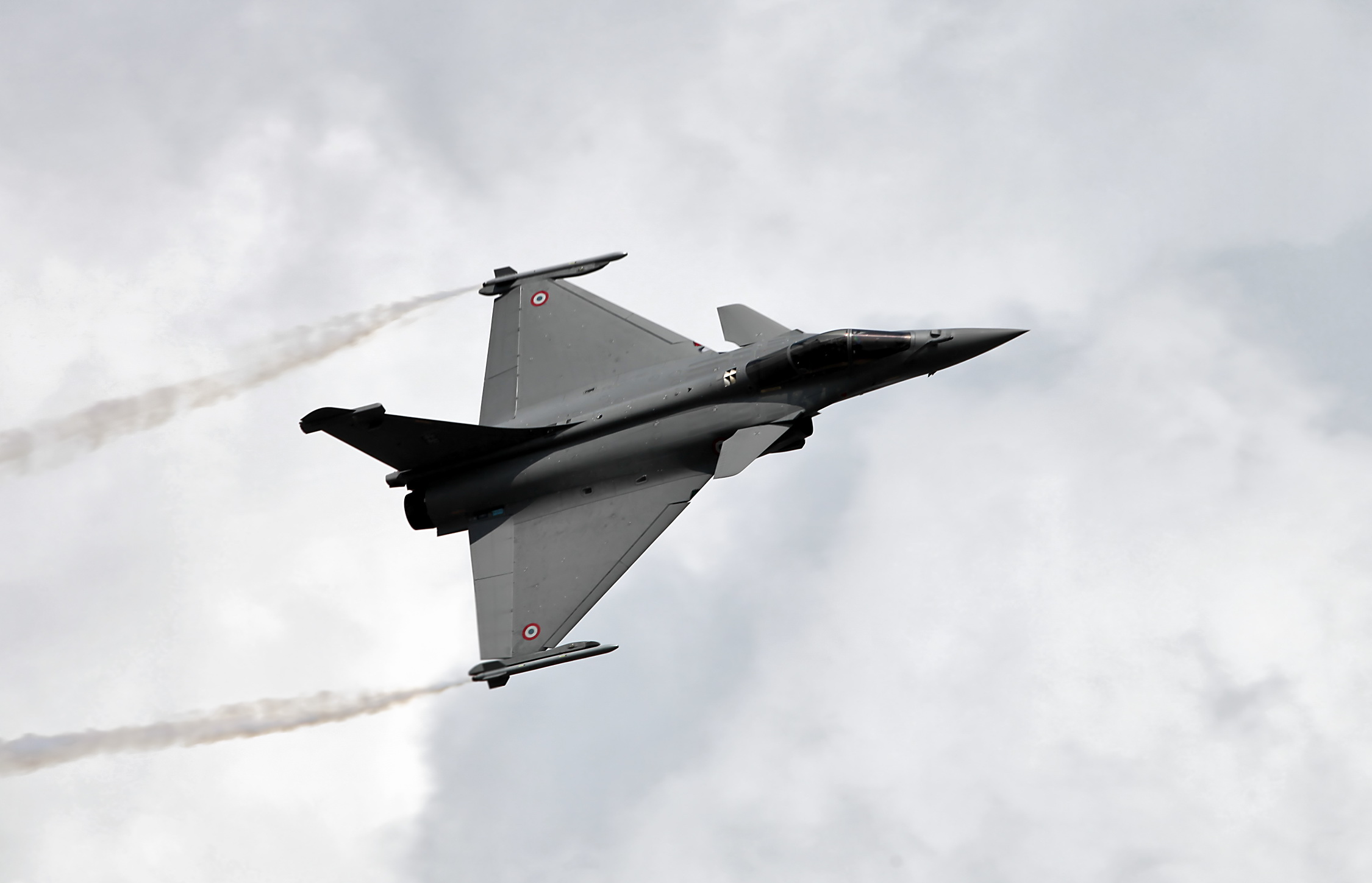 Dassault Rafale